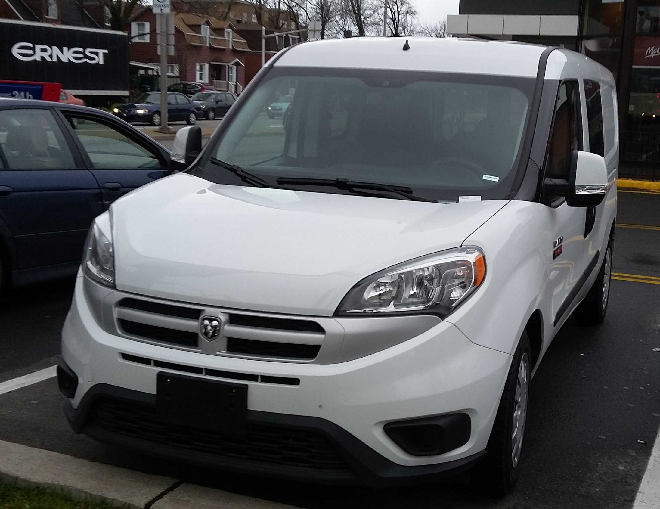 2015-present Ram ProMaster City photographed in Montreal, Quebec, Canada.